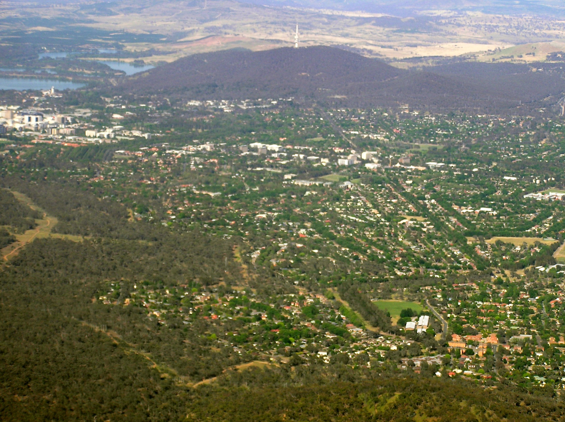 Aerial photograph of Ainslie ACT from north east. Black mountain in the background, Hackett in foreground, Dickson on right